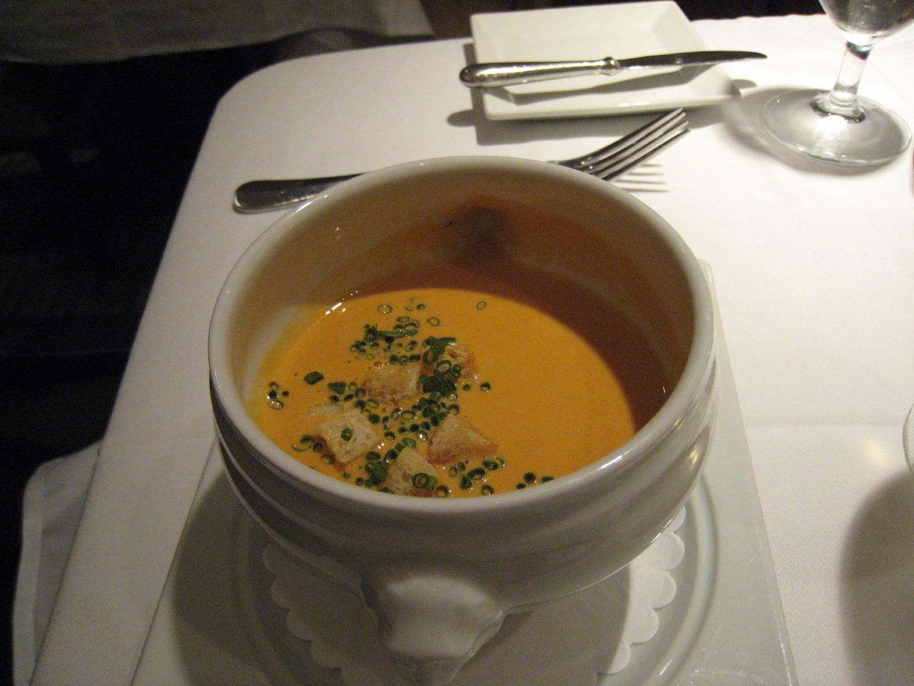 Lobster Bisque at Vidalia Photo featured here